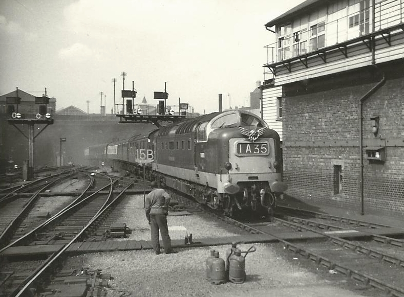 English Electric Type 5 (later Class 55) "Deltic" 3,300 hp Co-Co No.D9013 "The Black Watch" (later 55 013) in BR green livery with light green stripe and yellow warning panel enters Kings Cross with "The Flying Scotsman" from Edenburgh Waverley complete with the then new headboard which was carried for only a few years, 07/66. Scanned photograph taken with a Kowa SET camera.